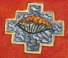 lake of 14 auspicious dreams in Jainism